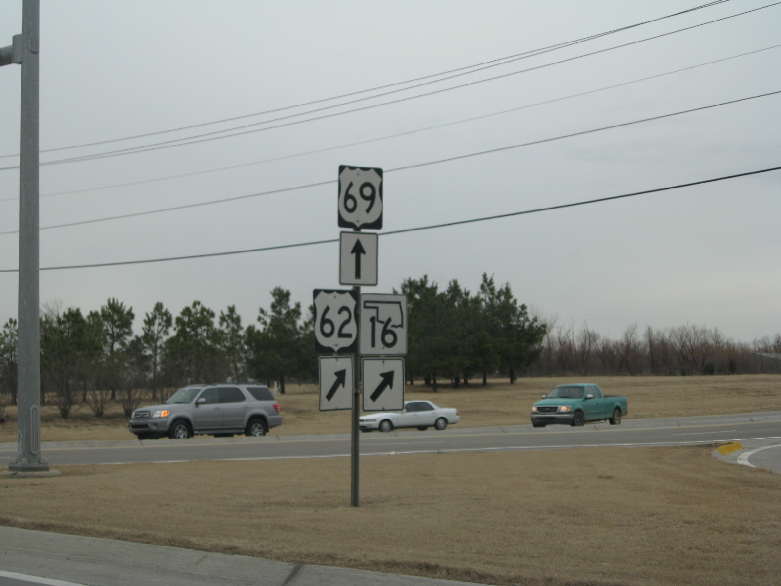 U.S. Route 62 splitting away from U.S. 69 in Muskogee, Oklahoma.